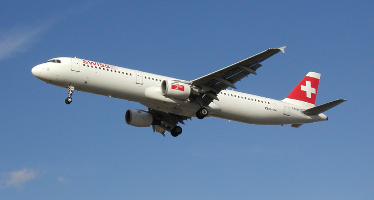 Airbus A321-100 of Swiss International Air Lines landing at London Heathrow Airport.